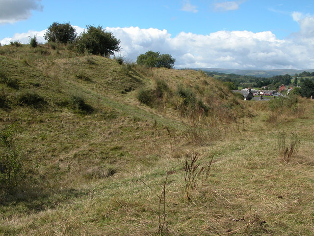 Builth Wells Castle. Builth Wells castle along with the impressive castles of north Wales was built by Edward I. Today all that remains are earthworks of this once substantial castle.